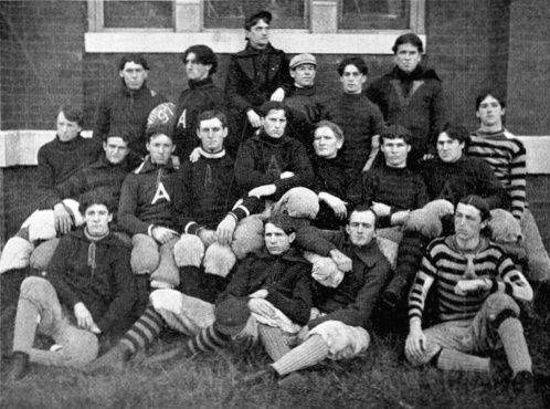 The fall 1897 Alabama Polytechnic Institute (now Auburn University) varsity football team. Pictured are, from left to right: Front row: Wheeler, Purifoy, Abernethey, Paden Second row: Huguley, Glover, Dickey, Jackson, Holcombe, Glenn, Pearce, Mitcham, Skeggs Third row: Culver, Stokes (Captain), Hobdy (Manager), Heisman (Coach), Wills, Vann